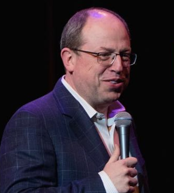 Comedian Brent Butt performs at Casino Regina